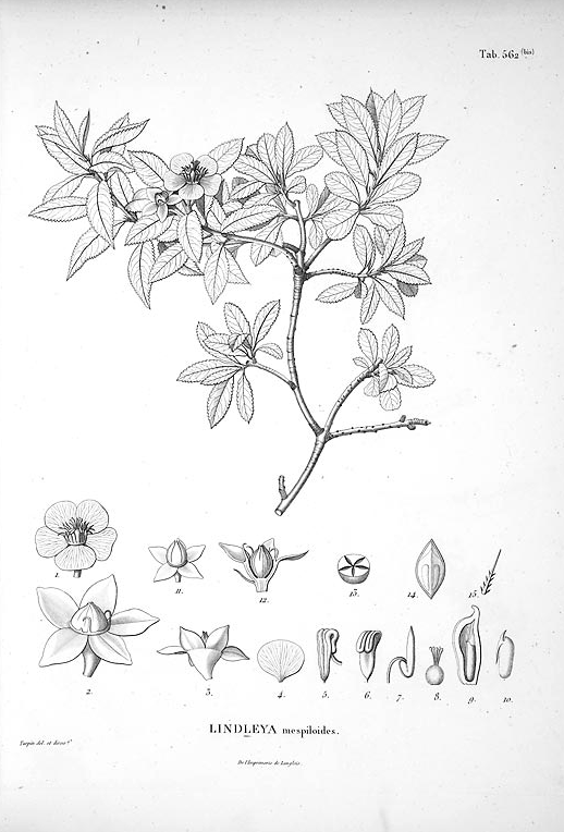 Page 52b of the Illustrated Garden.